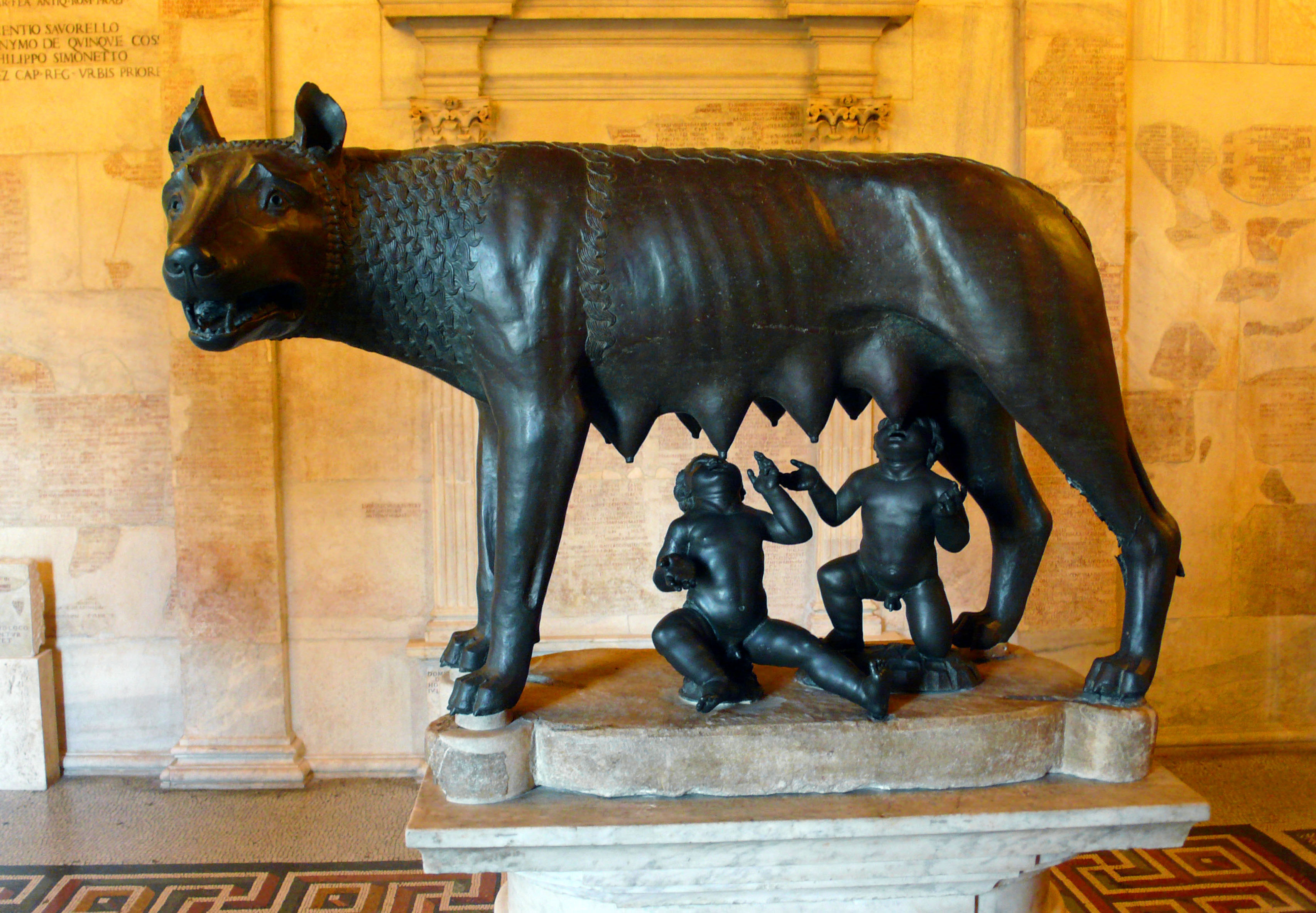 The Capitoline She-Wolf is a bronze sculpture of a she-wolf suckling twin infants, inspired by the legend of the founding of Rome and serves as an icon of city since antiquity time. The age and origin of the Capitoline Wolf is a subject of controversy. The statue was long thought to be an Etruscan work of the 5th century BC, with the twins added in the late 15th century AD, probably by the sculptor Antonio Pollaiolo. However, radiocarbon and thermoluminescence dating has found that it was possibly manufactured in the 13th century AD; this result, which undercuts the sculpture's iconic significance, is still contested, and while carbon dating has been performed on remnants of the casting core, the results have not yet been publicised. 5th century BC, Bronze. cm 75 Formerly at the Lateran. Sixtus IV donation (1471) Capitoline Museum, Rome.